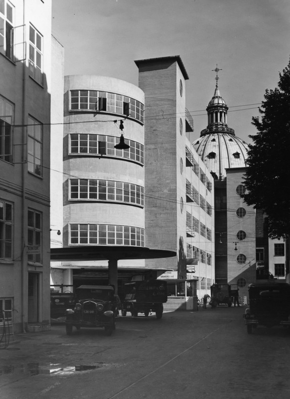 Palægaragerne at Dronningens Tværgade 4 after the expansion in 1934 in Copenhagen, Denmark1934